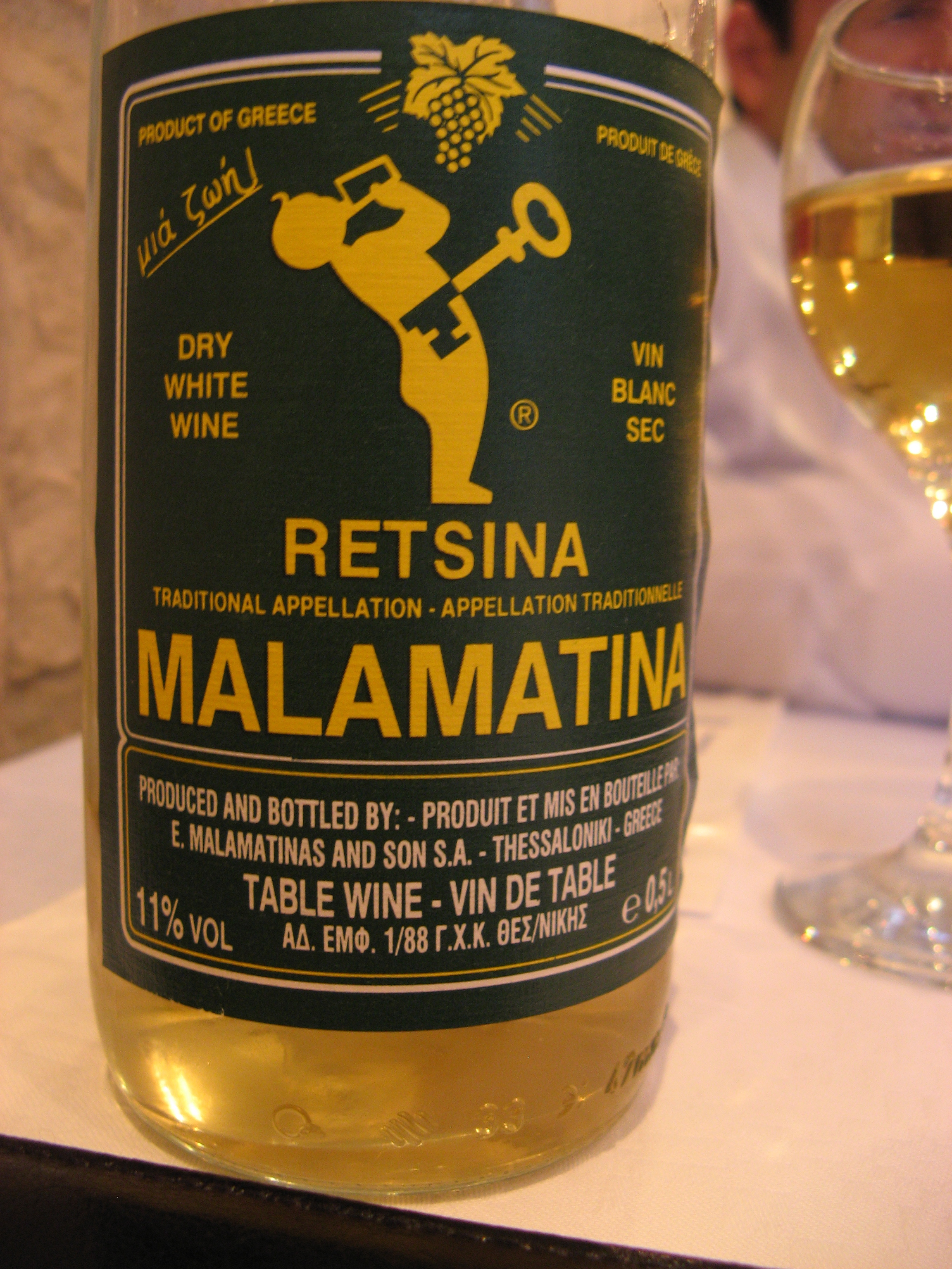 Image showing the traditional color of the Greek wine retsina.